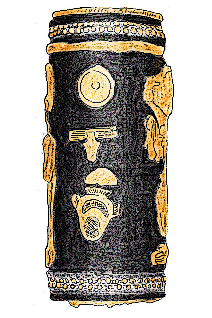 Drawing of the handle of a ceremonial mace with the name of Hotepibre, an ancient Egyptian pharaoh of the 13th Dynasty. On its sides, the king's name is worshipped by two baboons, barely visible here. The mace was found in the so-called "Tomb of the Lord of the Goats" at Ebla, in Northern Syria, and was most likely a gift from Hotepibre to the Eblaite king Immeya. Materials: gold, silver and ivory.